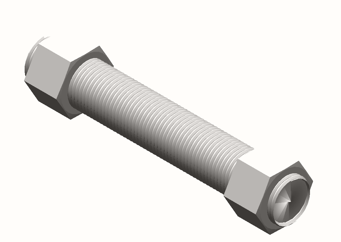 Stud with two nuts